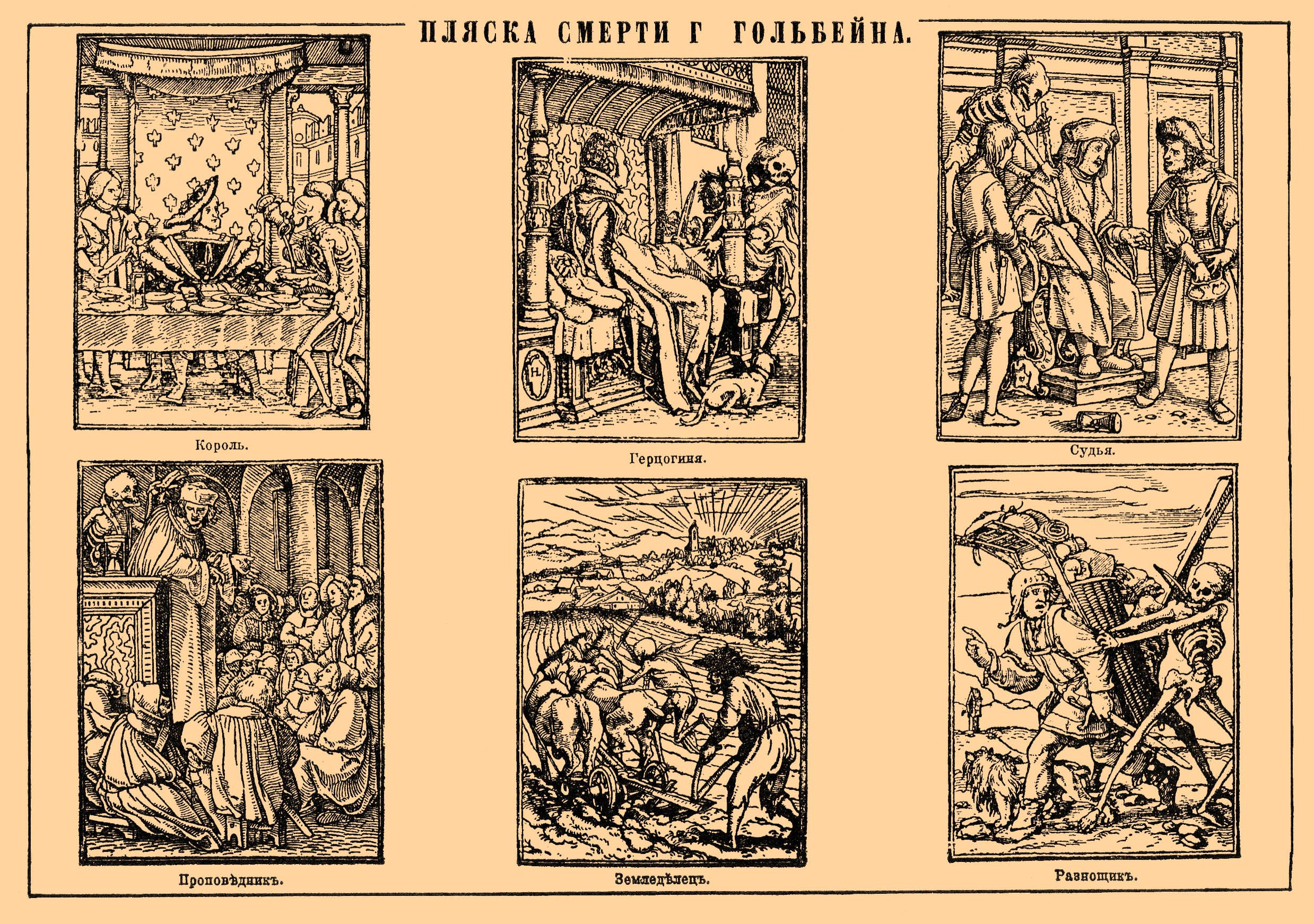 Illustration from Brockhaus and Efron Encyclopedic Dictionary (1890—1907)